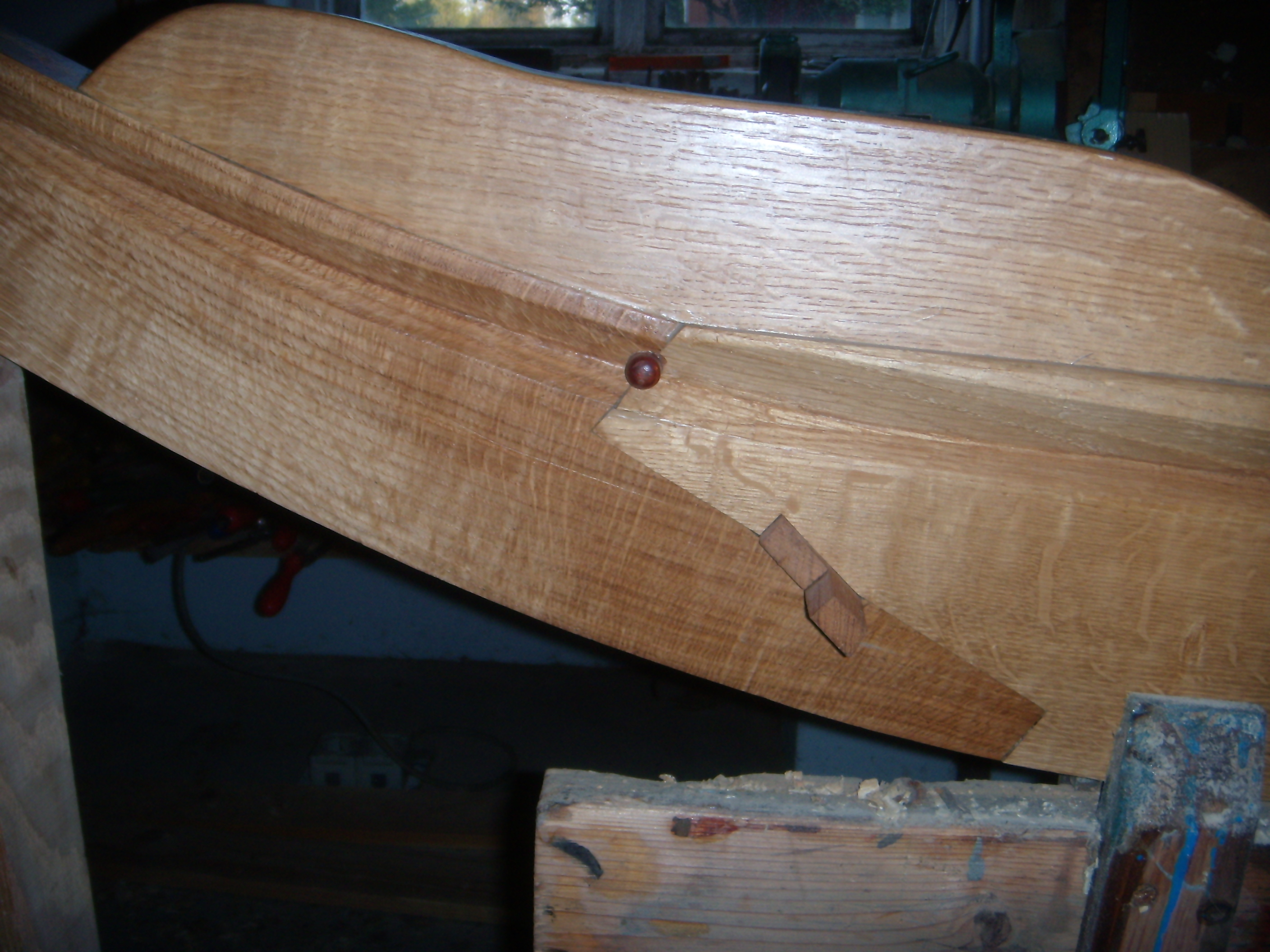 Splice joint on the stem together whit the keel.